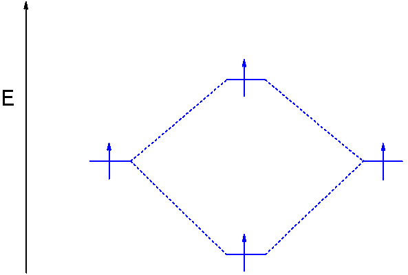 MO_diagram_dihydrogen_bond_break